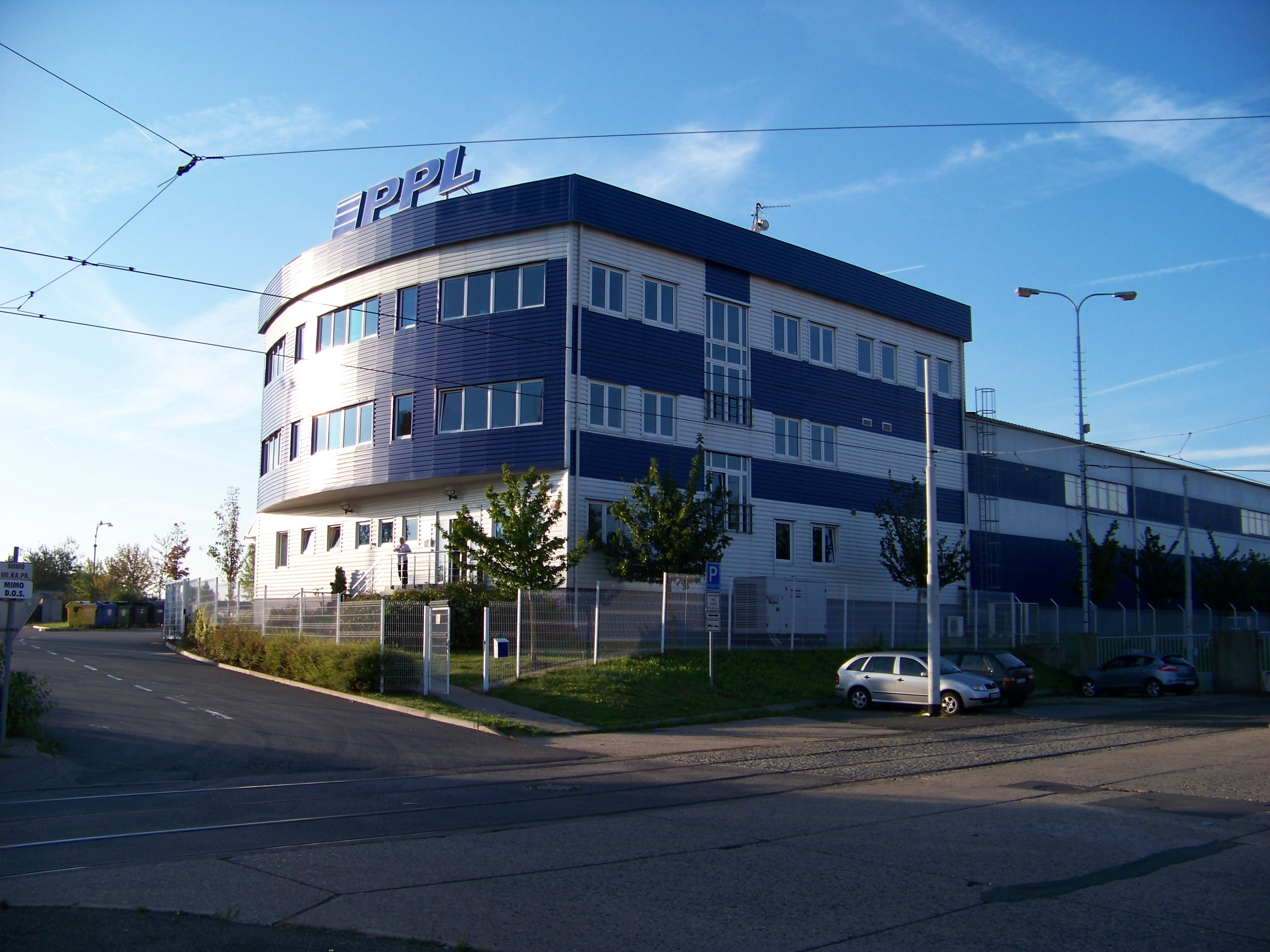 Prague-Malešice, the Czech Republic. U vozovny 658/8, PPL.